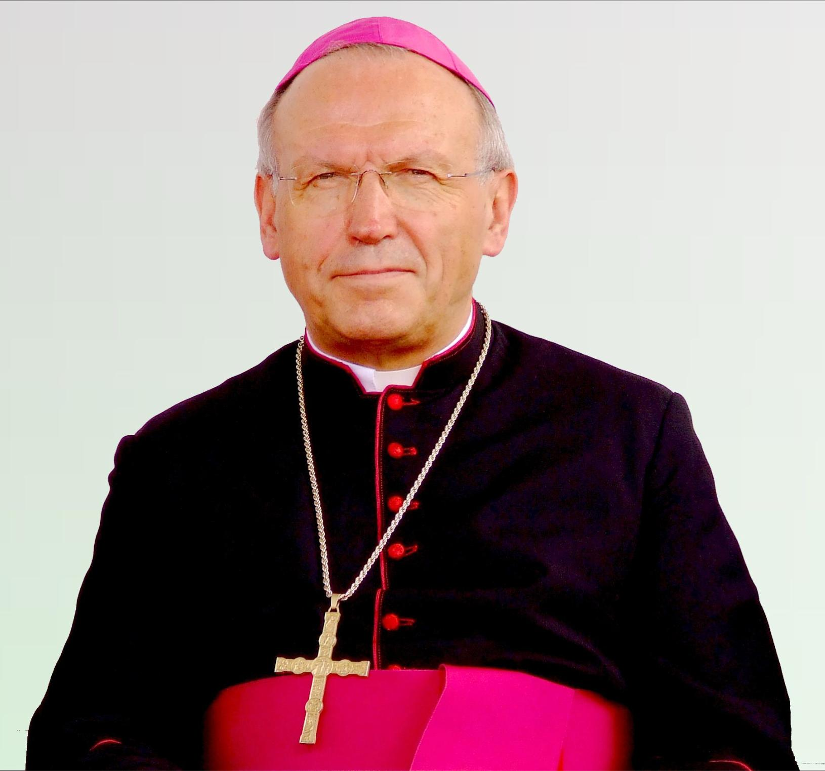 portrait (photo, digital) of Slovene archbishop Anton Stress